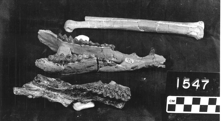 Paratylopus fossils, University of California Museum of Paleontology.